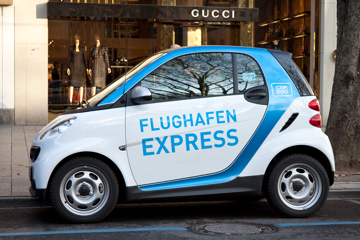 Smart at Königsallee, Düsseldorf, Germany. Advertisement: "Airport Express". Free floating car.